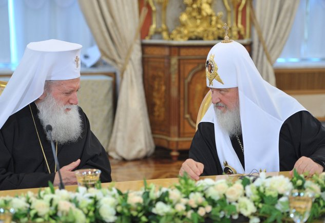 Patriarch Kirill of Moscow and patriarch Neophyte of Bulgaria during the meeting of Orthodox leaders with Russian president Vladimir Putin, 25 July 2013